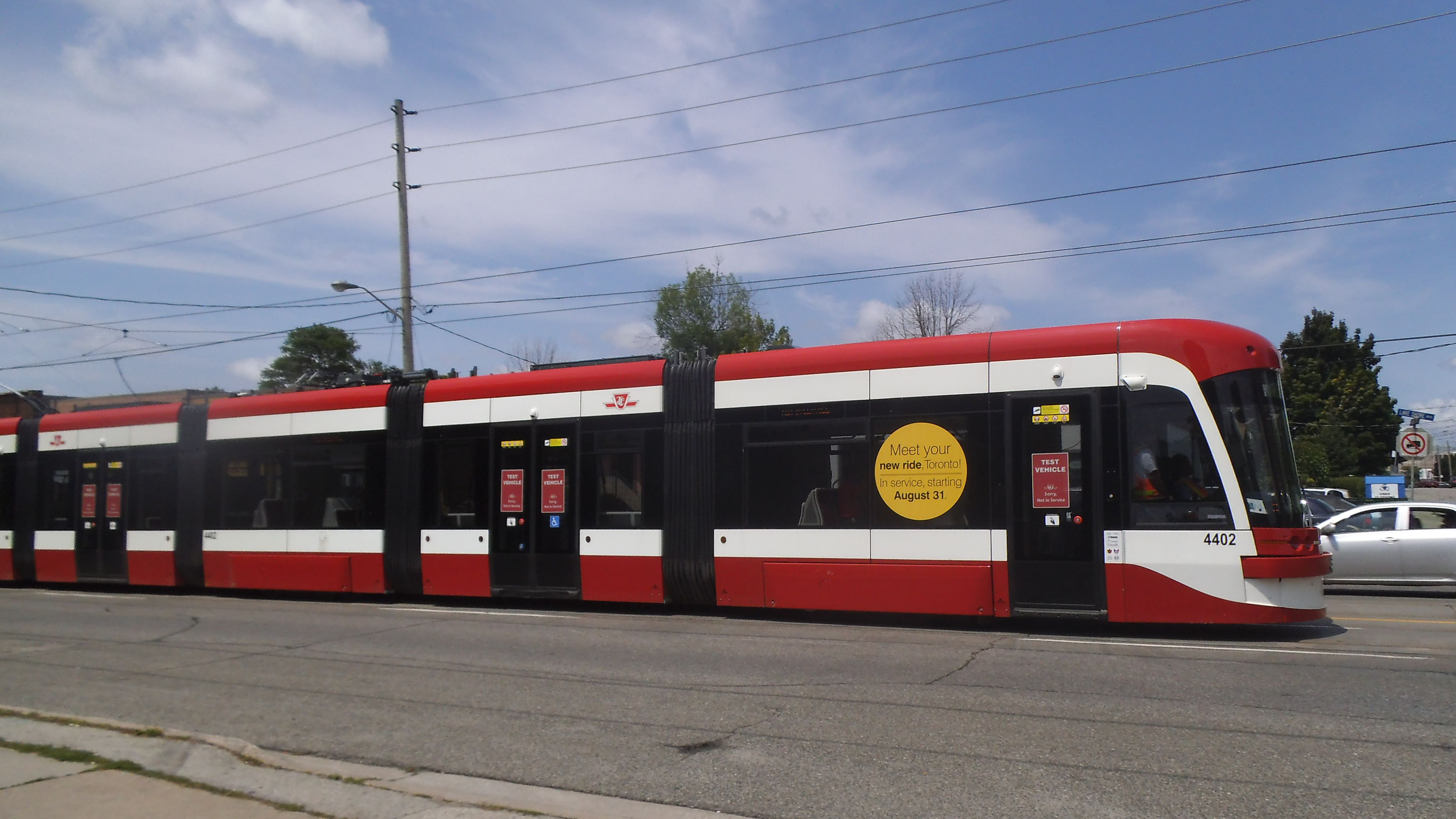 TTC Flexity Outlook #4402 undergoing testing along Lake Shore Blvd. W.